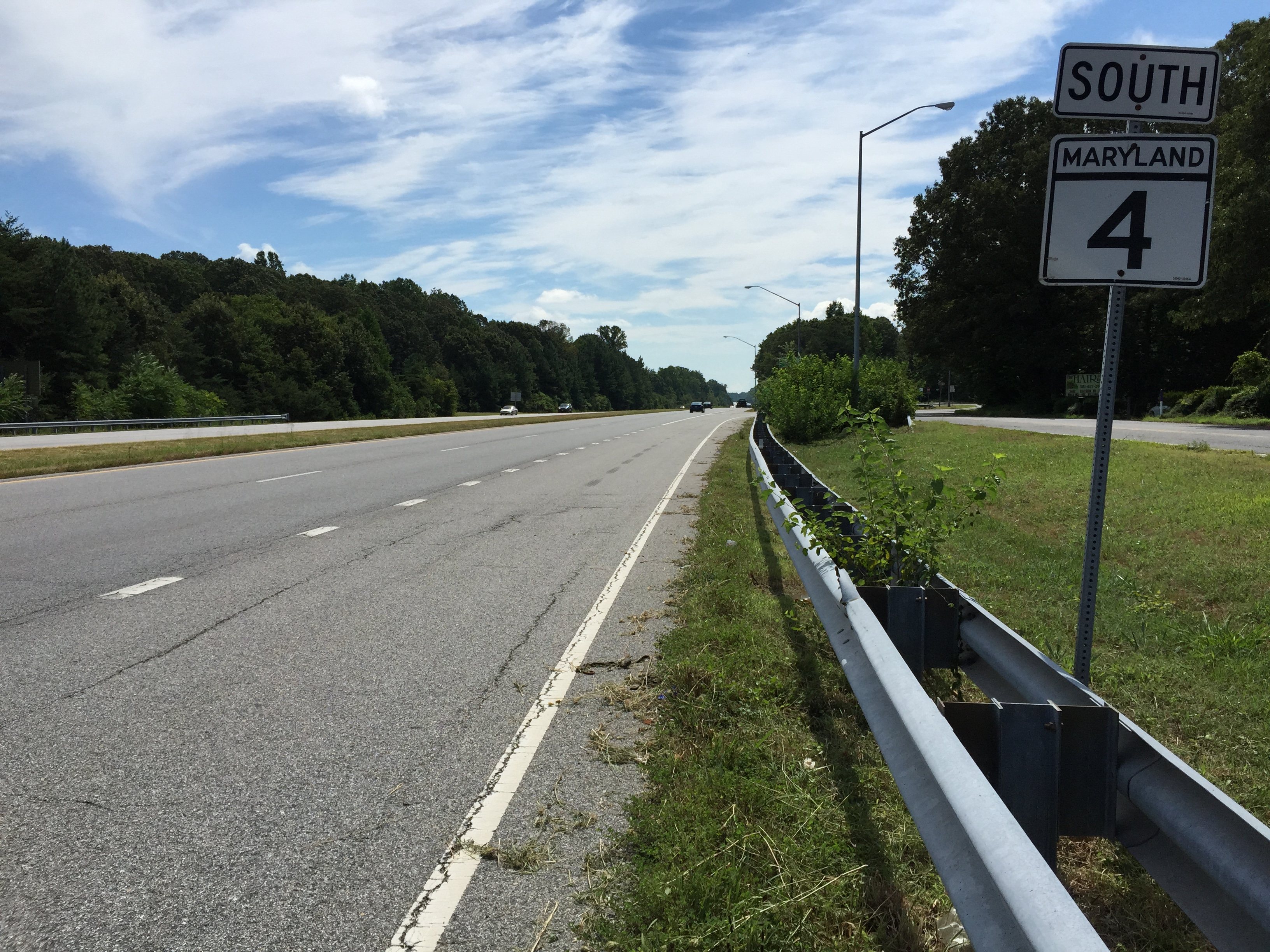 View south along Maryland State Route 4 (Stephanie Roper Highway) just south of Maryland State Route 408 (Mount Zion-Marlboro Road) in Drury, Anne Arundel County, Maryland